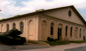 Watervliet Arsenal Museum at Watervliet Aresnal, Watervliet, New York, the oldest continuously operating arsenal in the U.S. and a National Historic Landmark. This is Building 38 at the Arsenal and is called the "Iron Building".